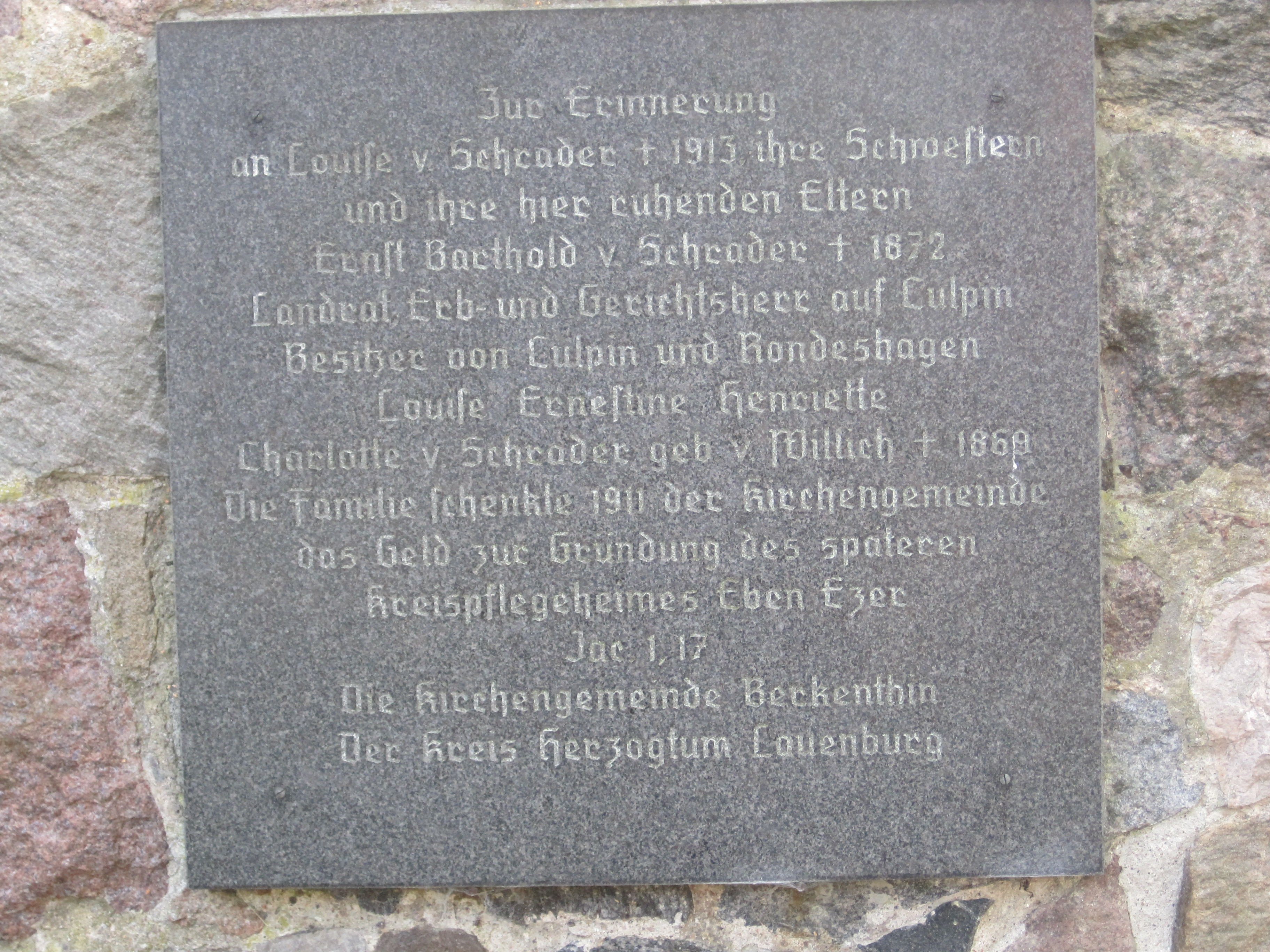 Maria Magdalen Church in Berkenthin